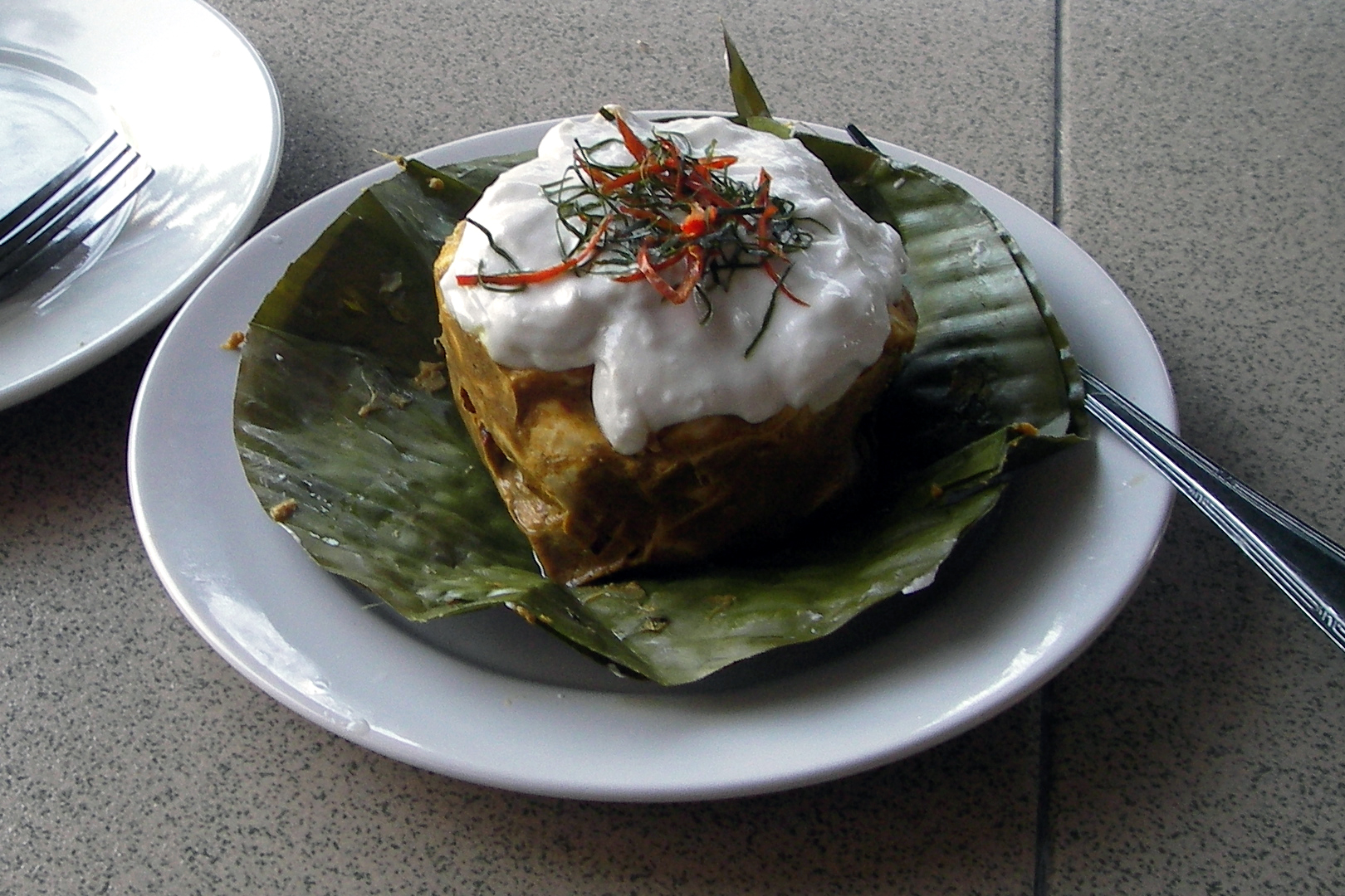 Amok, a typical Cambodian dish steamed in a banana leaf